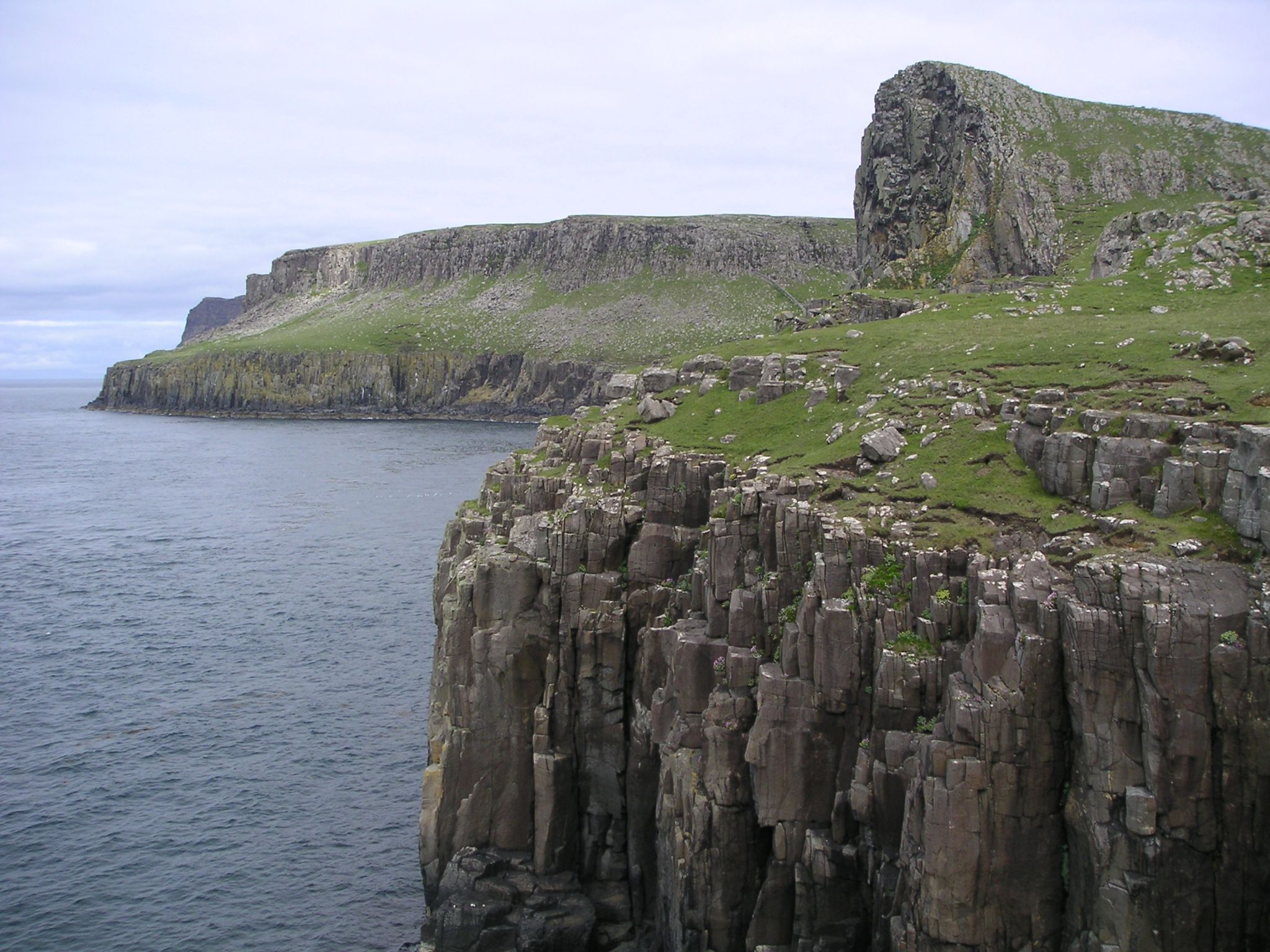 Cliffs in the Isle of Skye, Scotland Author: Wojsyl, 2004